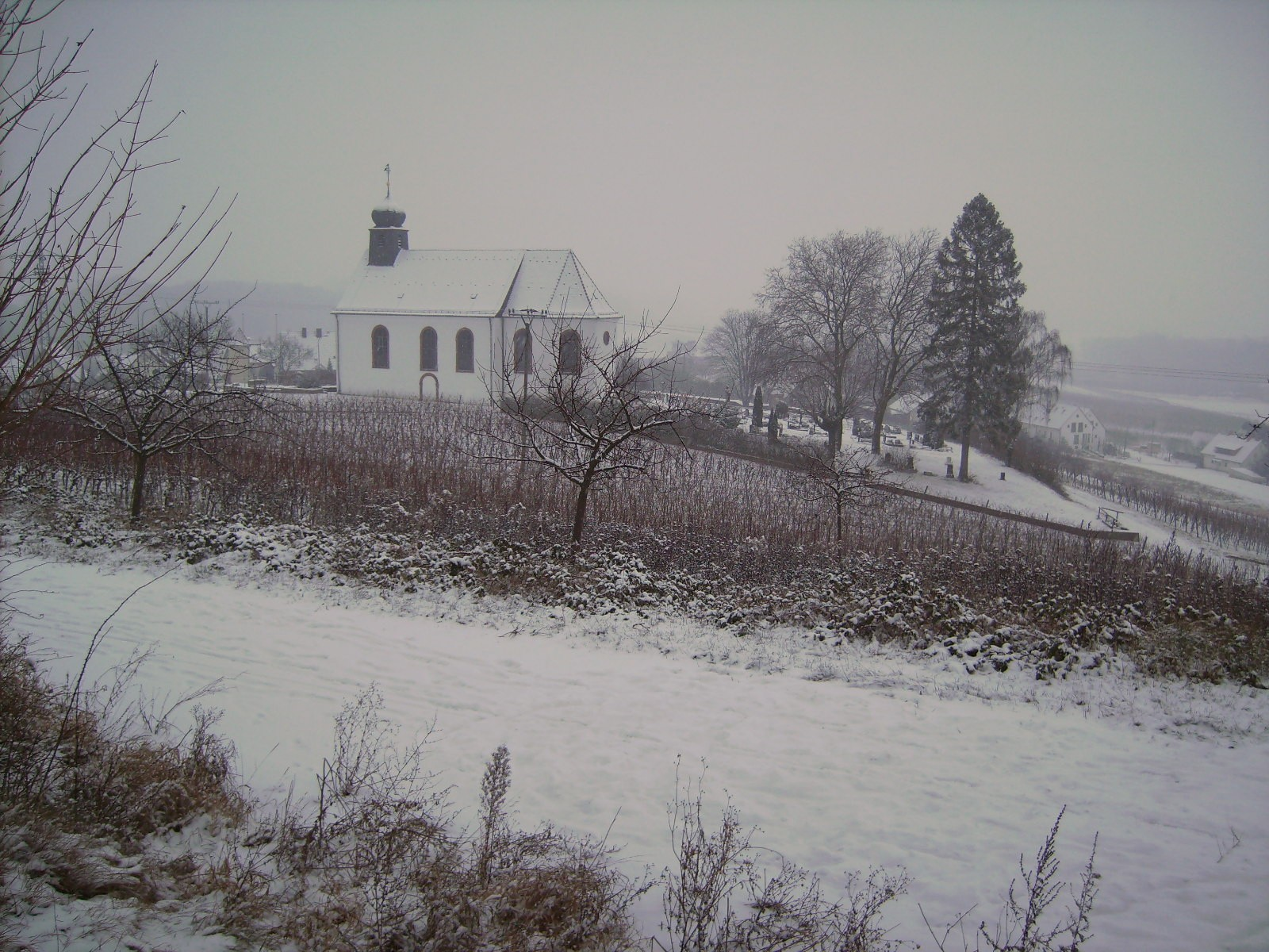 A wintry scence showing St. Dionysius chapel, Gleiszellen, Rhineland-Palatinate, Germany